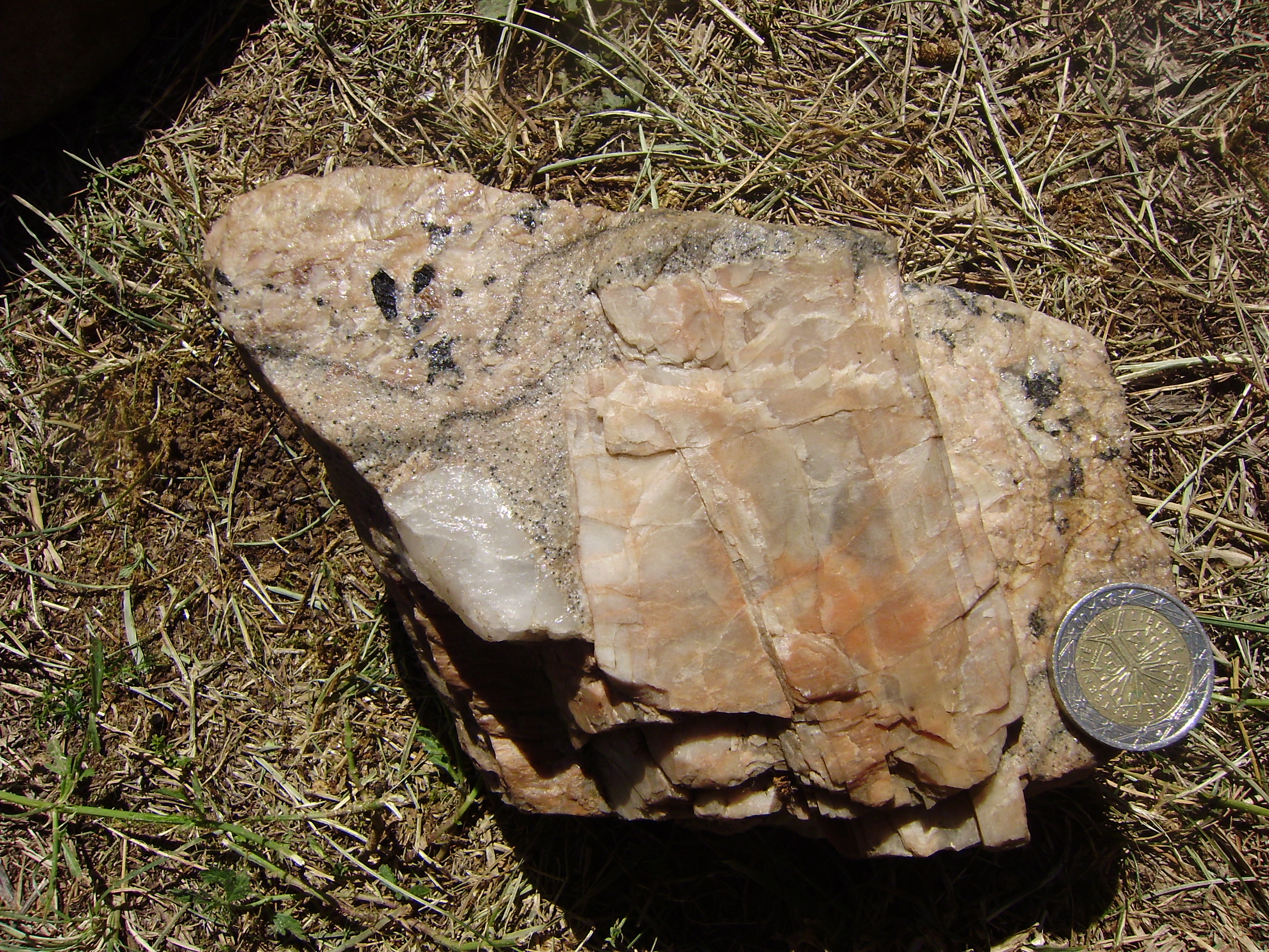 Pegmatite from the Piégut-Pluviers granodiorite, northwestern Massif Central, France. Intergrowth of large quartz and perthitic alkali feldspar. With mafic reaction rim.